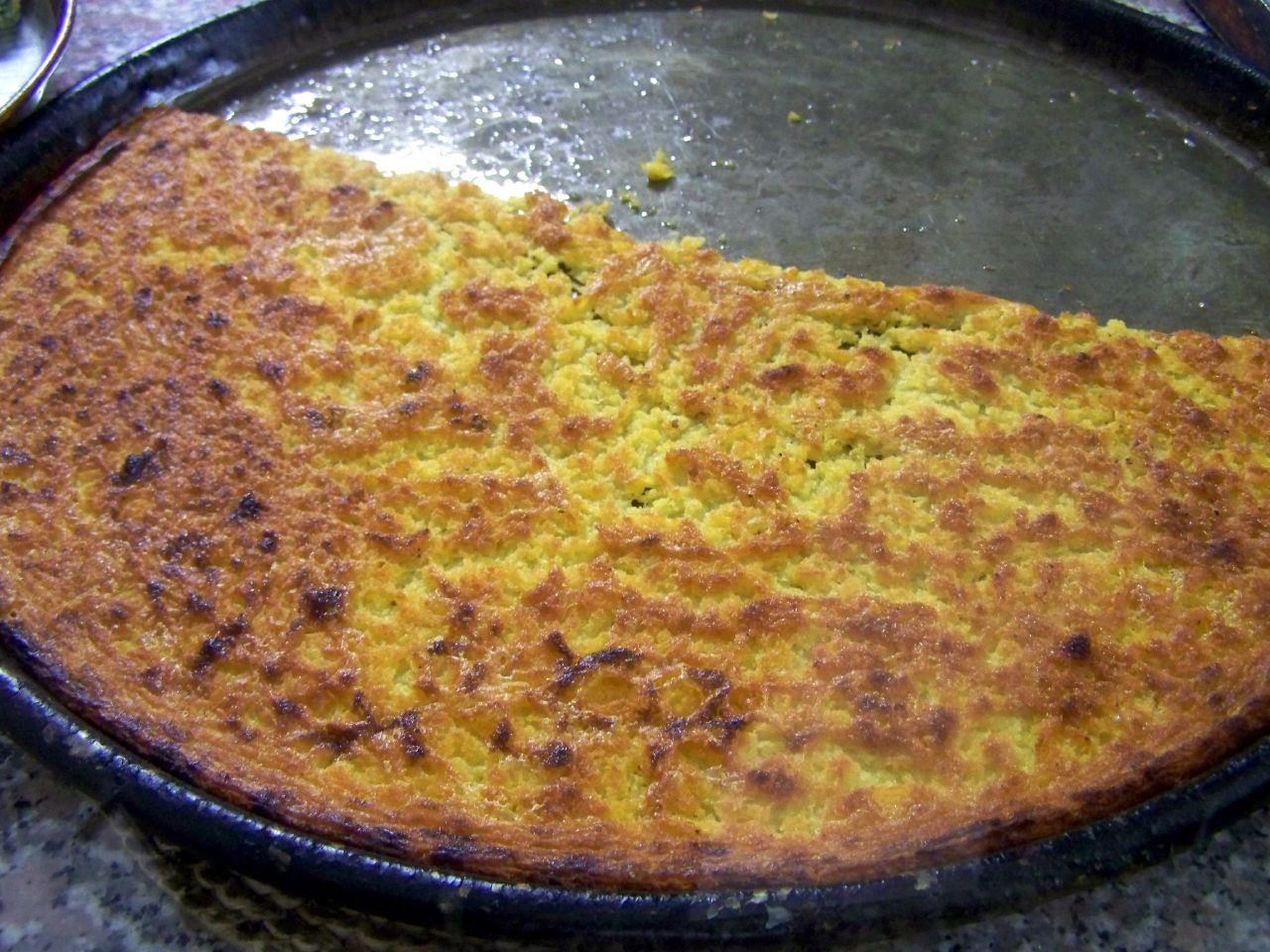 Farinata in Liguria, Italy.